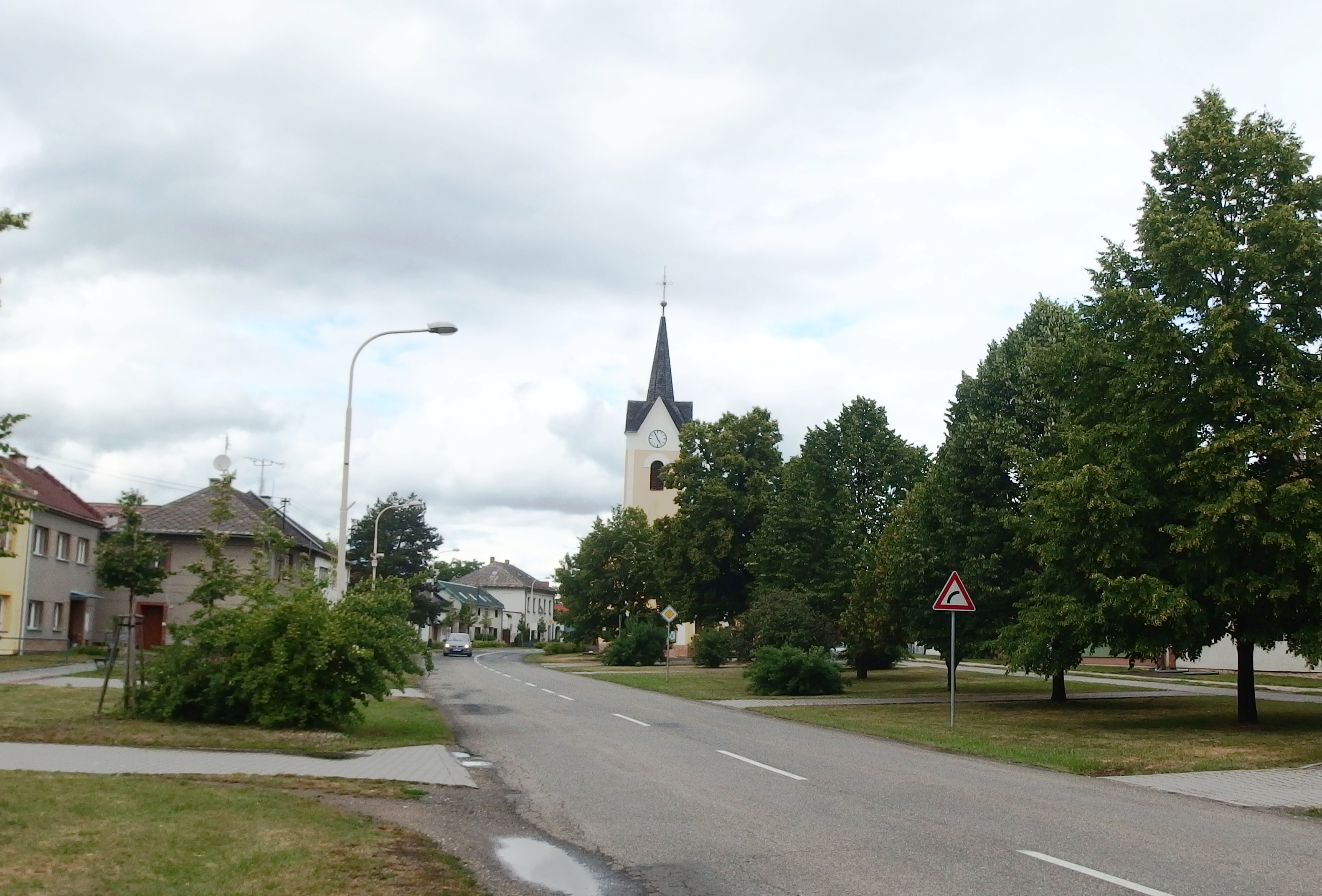 Majetín, Olomouc District, Czech Republic.